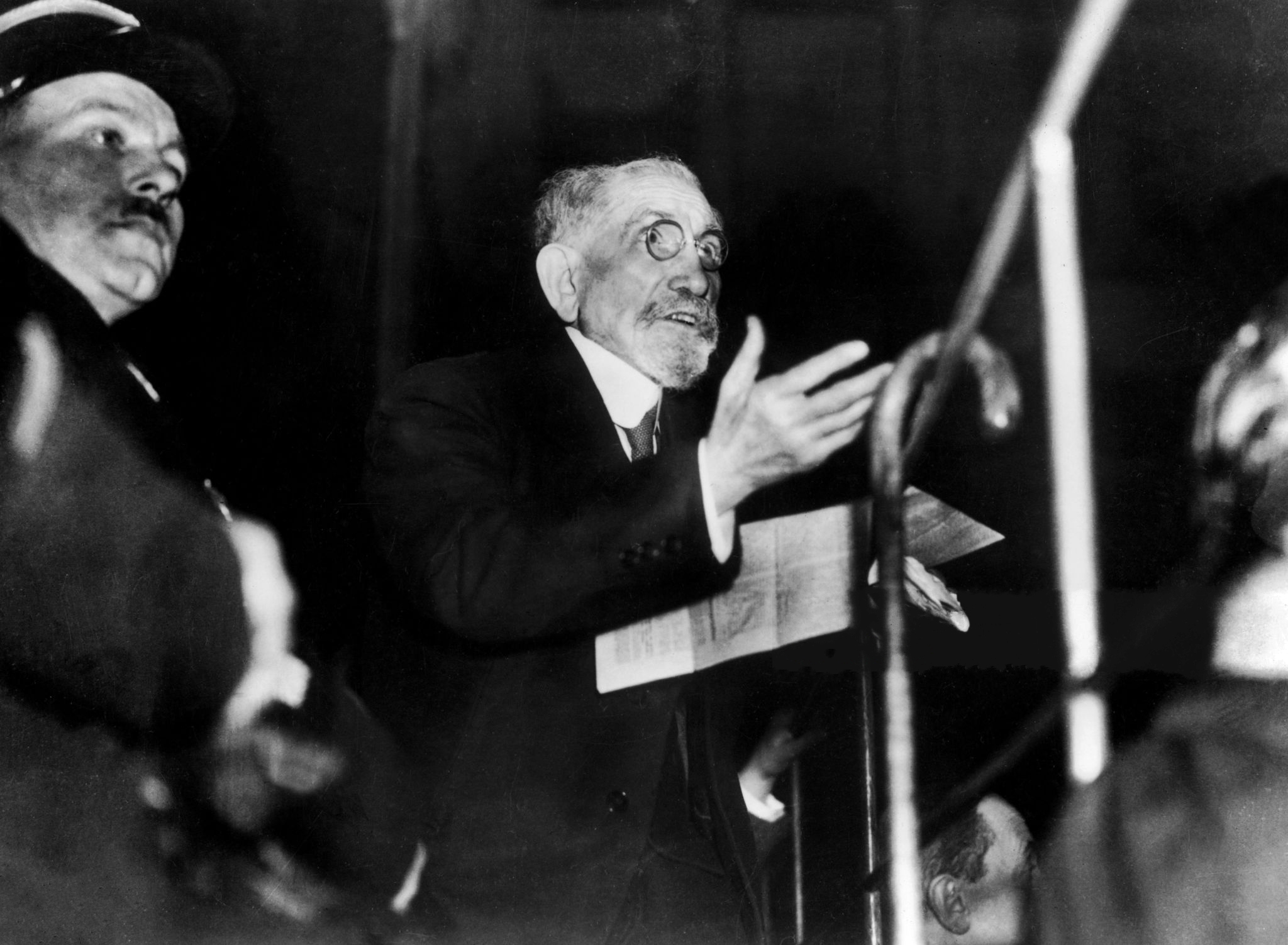 Charles Maurras On His Trial In Lyon, 1945